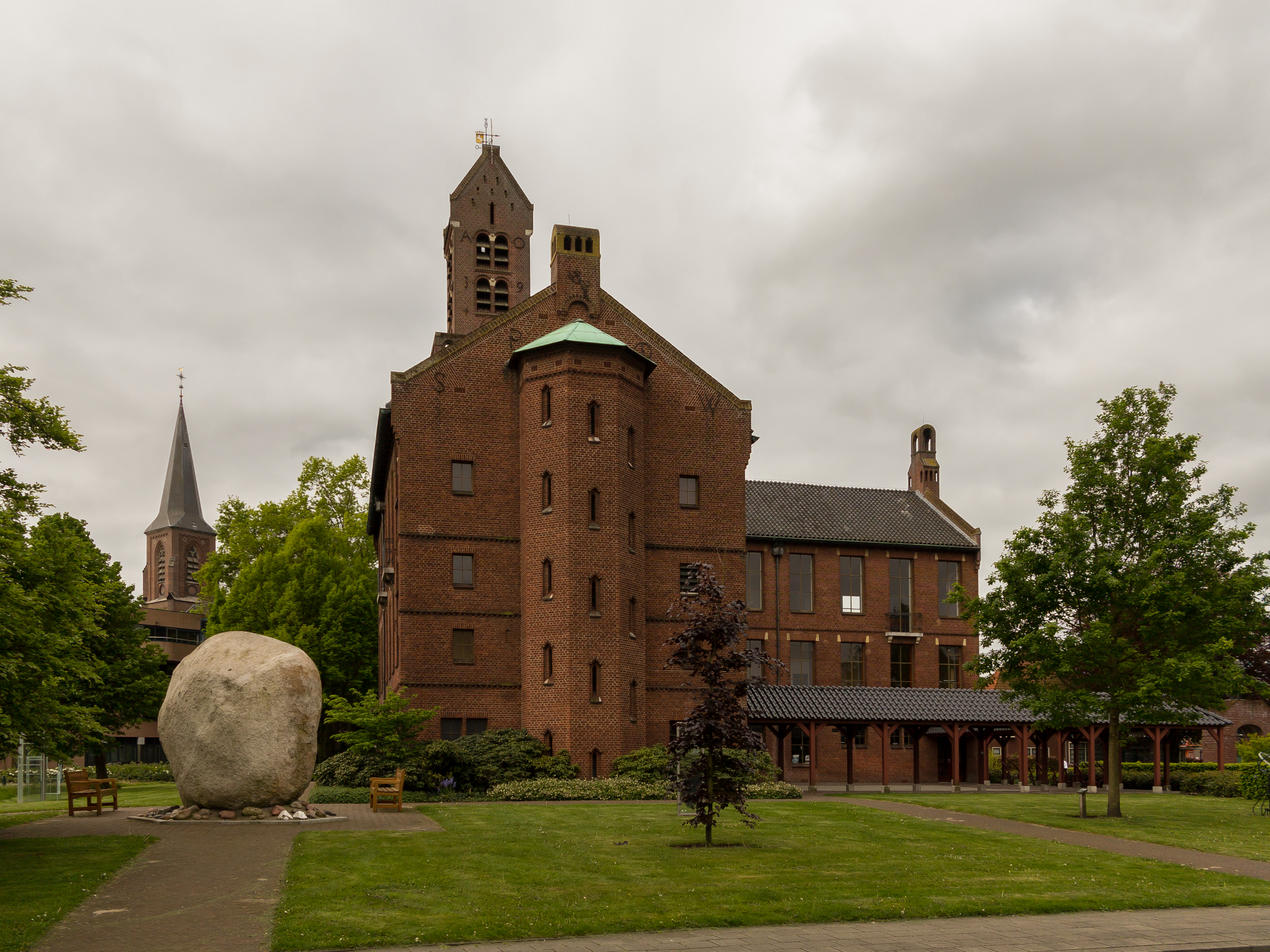 Winterswijk, former townhall and church (de Sint Jacobskerk) in the background